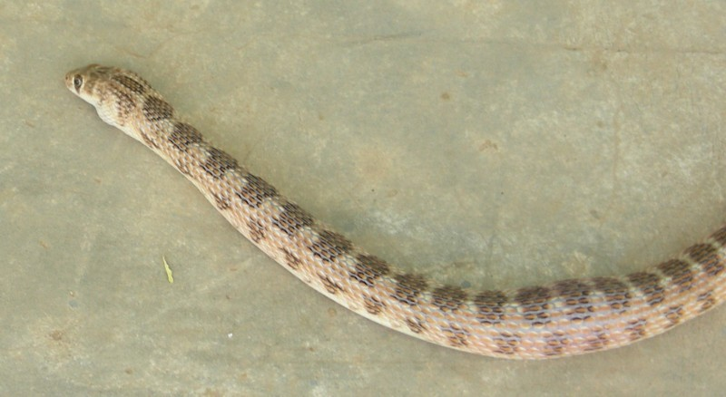 Glossy-bellied Racer, Coluber ventromaculatus, Family Colubridae, Serpentes This snake has been photographed in Pokaran, district Jaisalmer, Rajasthan, India by AshLin on 06 Jun 2006. This image shows a closeup of the body of the Glossy-bellied Racer. Own work. AshLin 18:23, 30 July 2006 (UTC)